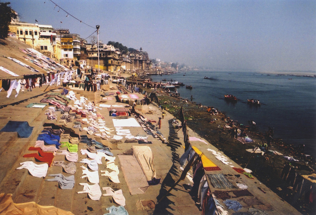 Varanasi londery, morning